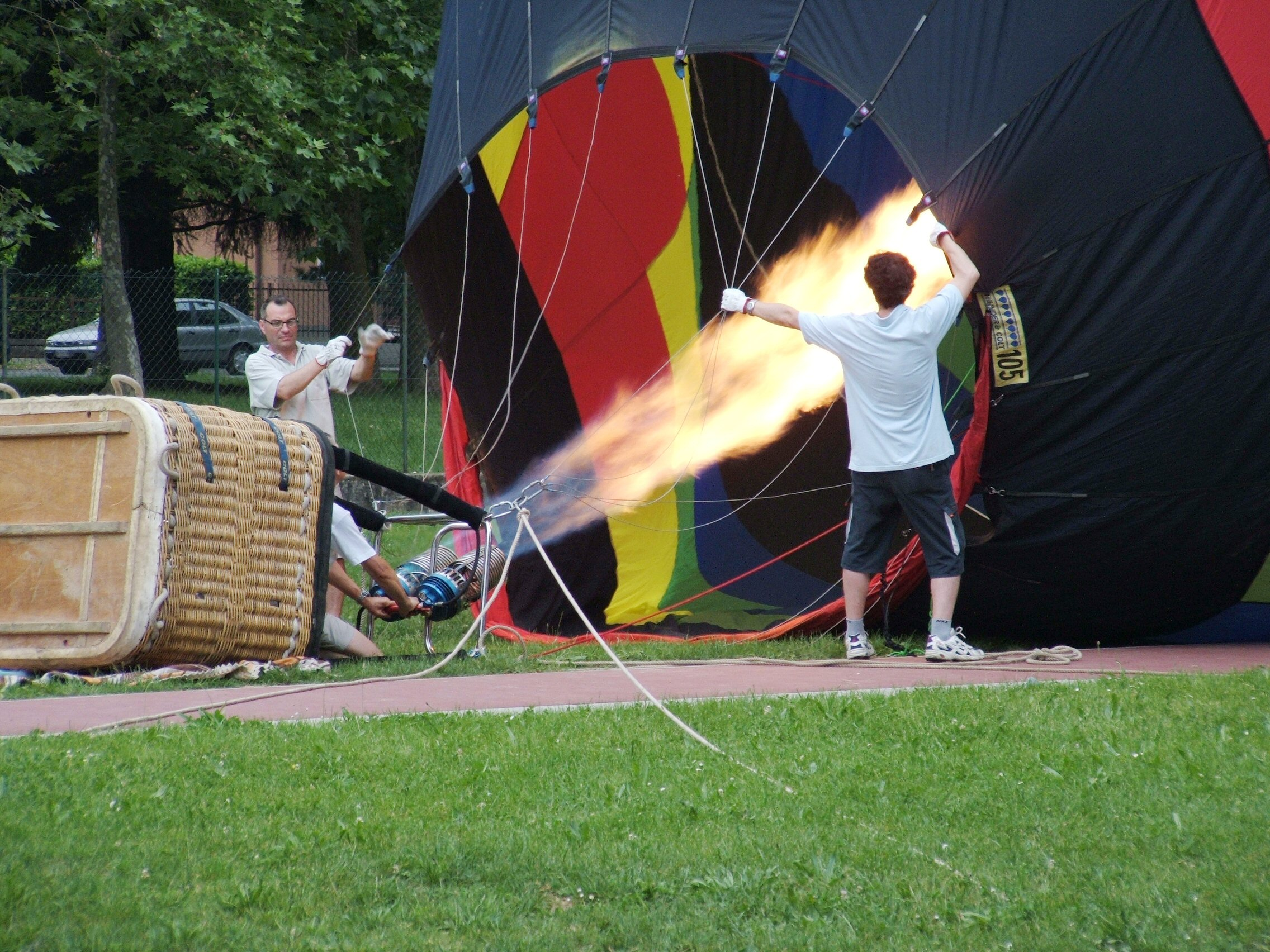 Hot air balloon